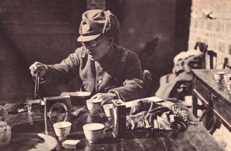 An Imperial Japanese Army officer eating canned beef yamatoni for lunch.